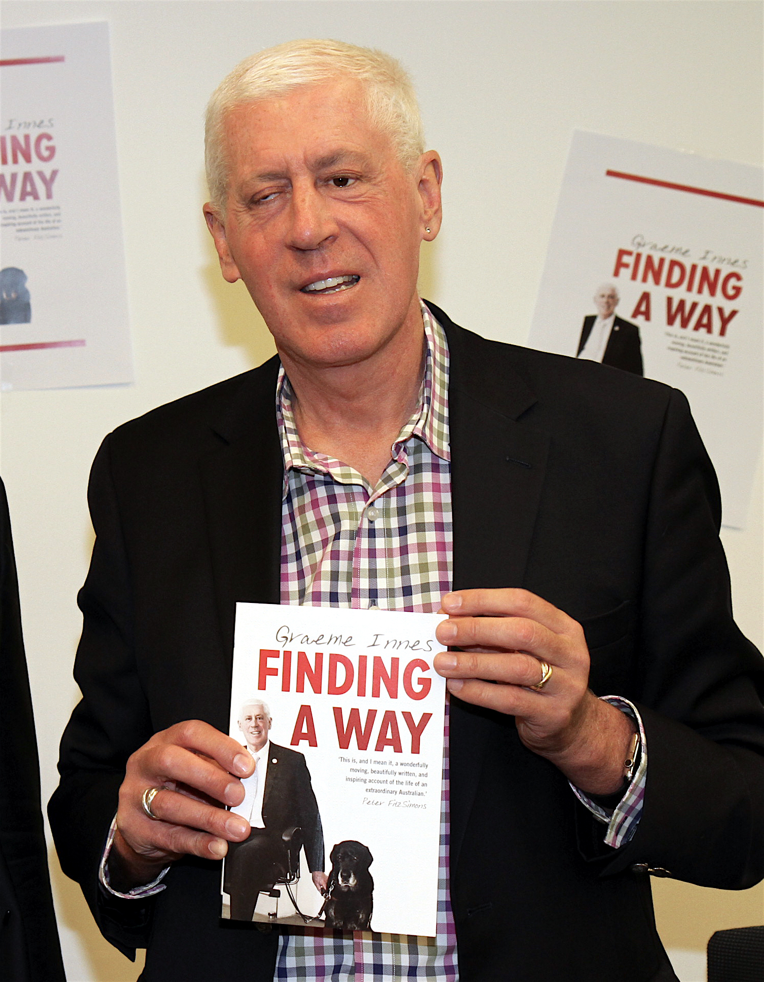 Graeme Innes launching his 2016 book "Finding a Way" at the Australian Human Rights Commission.